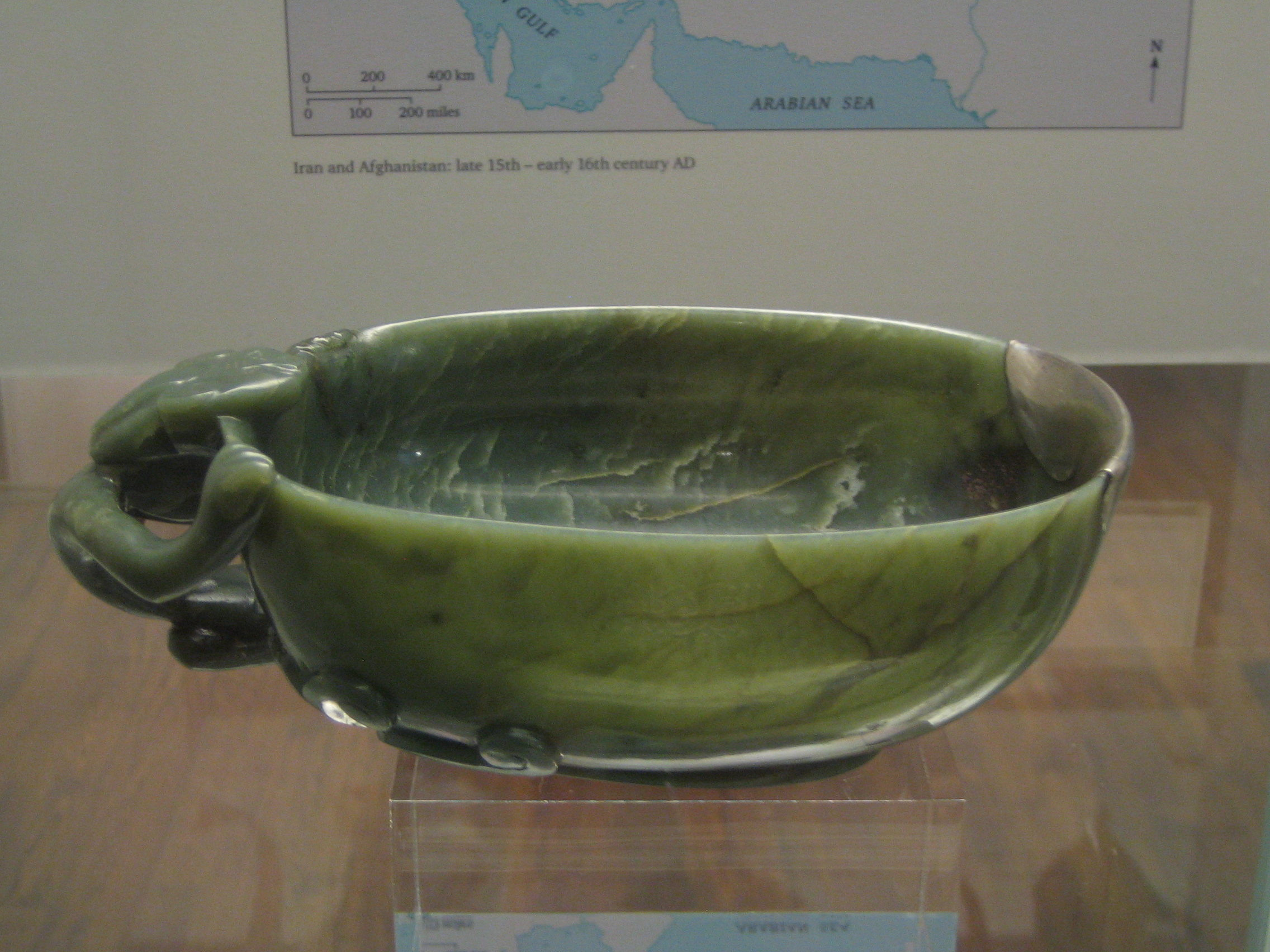 A jade 'Dragon cup', on display in the British Museum, London.